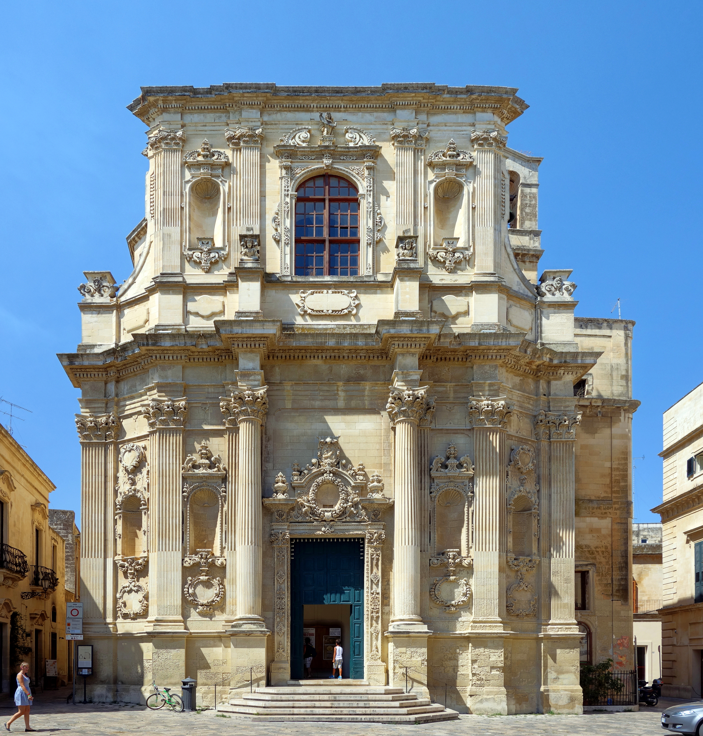 Santa Chiara Church in Lecce, Italy.